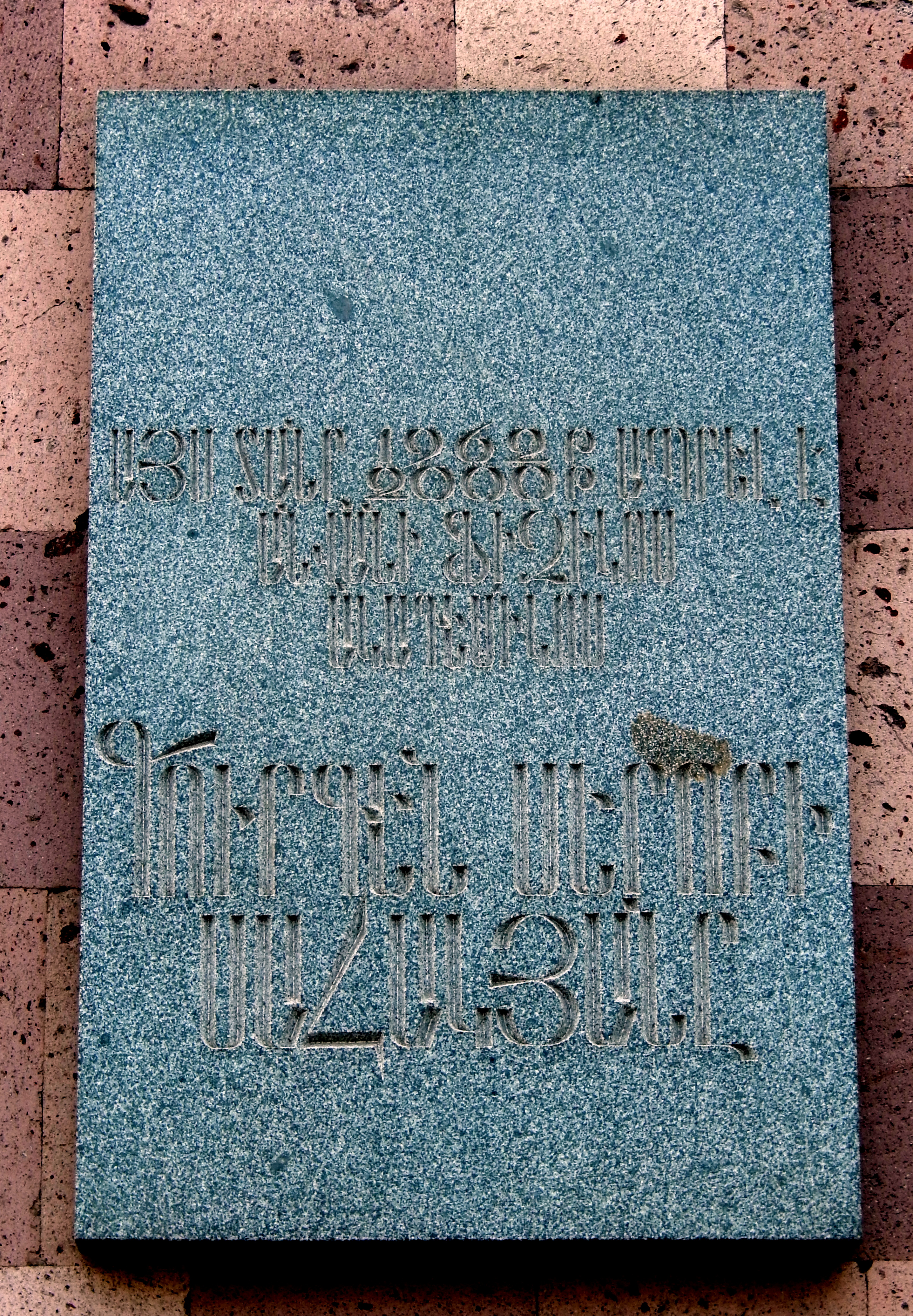 Գուրգեն Սահակյանի հուշատախտակը Երևանի Չարենցի 4 հասցեում